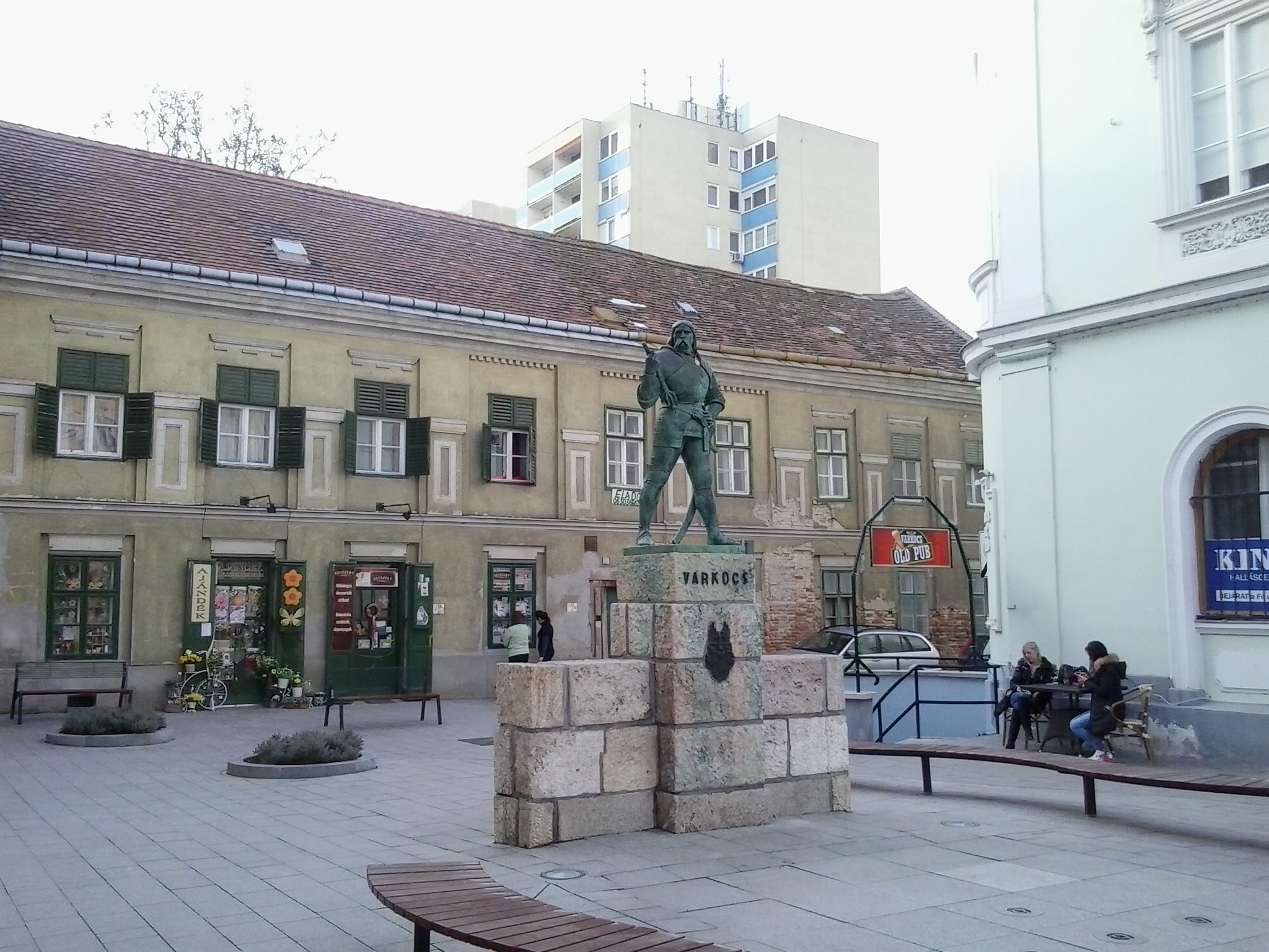 Statue of Captain György Varkocs, Székesfehérvár, Hungary